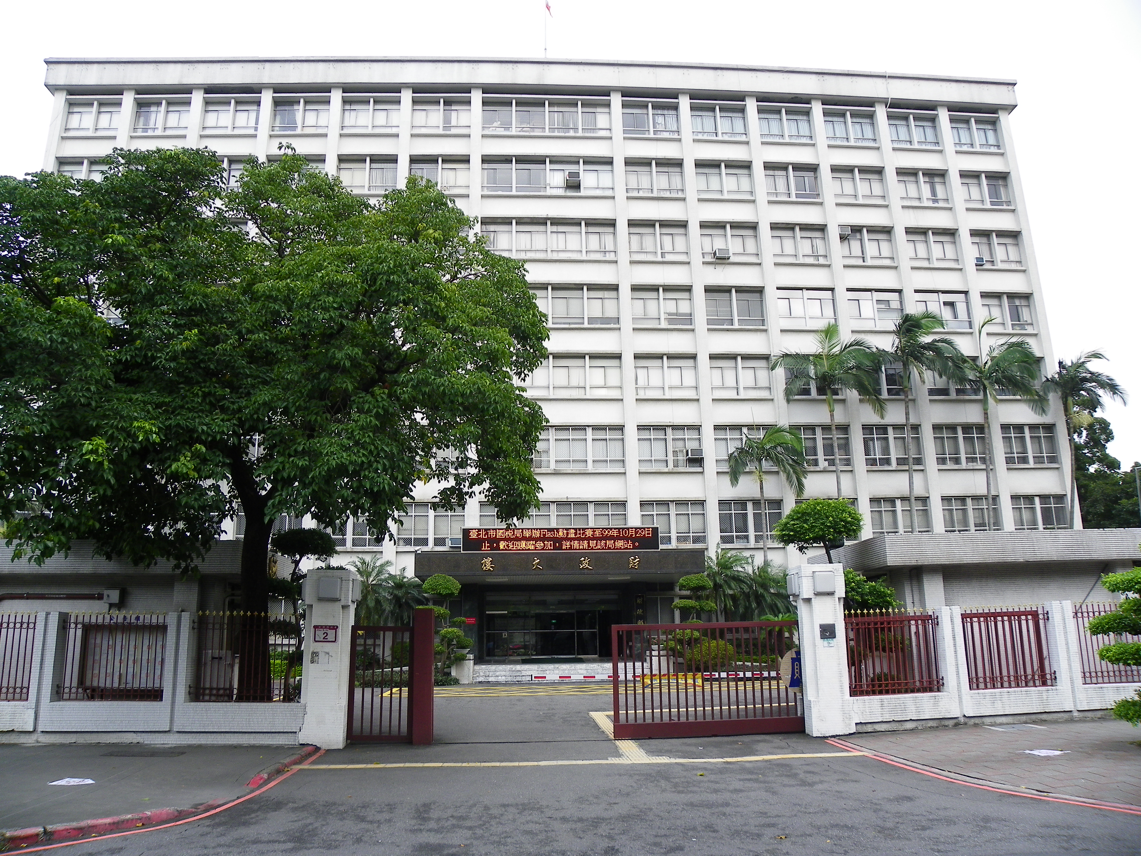 Ministry of Finance of the Republic of China on Aiguo West Road, Taipei City.